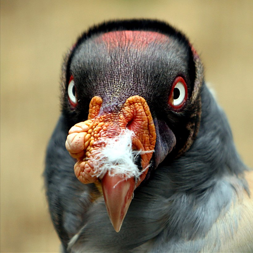 poor guy was trying to look so dignified. don't know what that white fuzz on his beak is or how he got it there. this is a king vulture at the national zoo in washington, dc. no worries, i live nearby and will check on him in a few days to see how he's doing... update: ok., i checked back on him - he's fine and looking pretty suave again... additional update: afer a couple months of looking at this picture i realized it was probably one of his own feathers stuck to his beak. can't believe this didn't occur to me until recently...